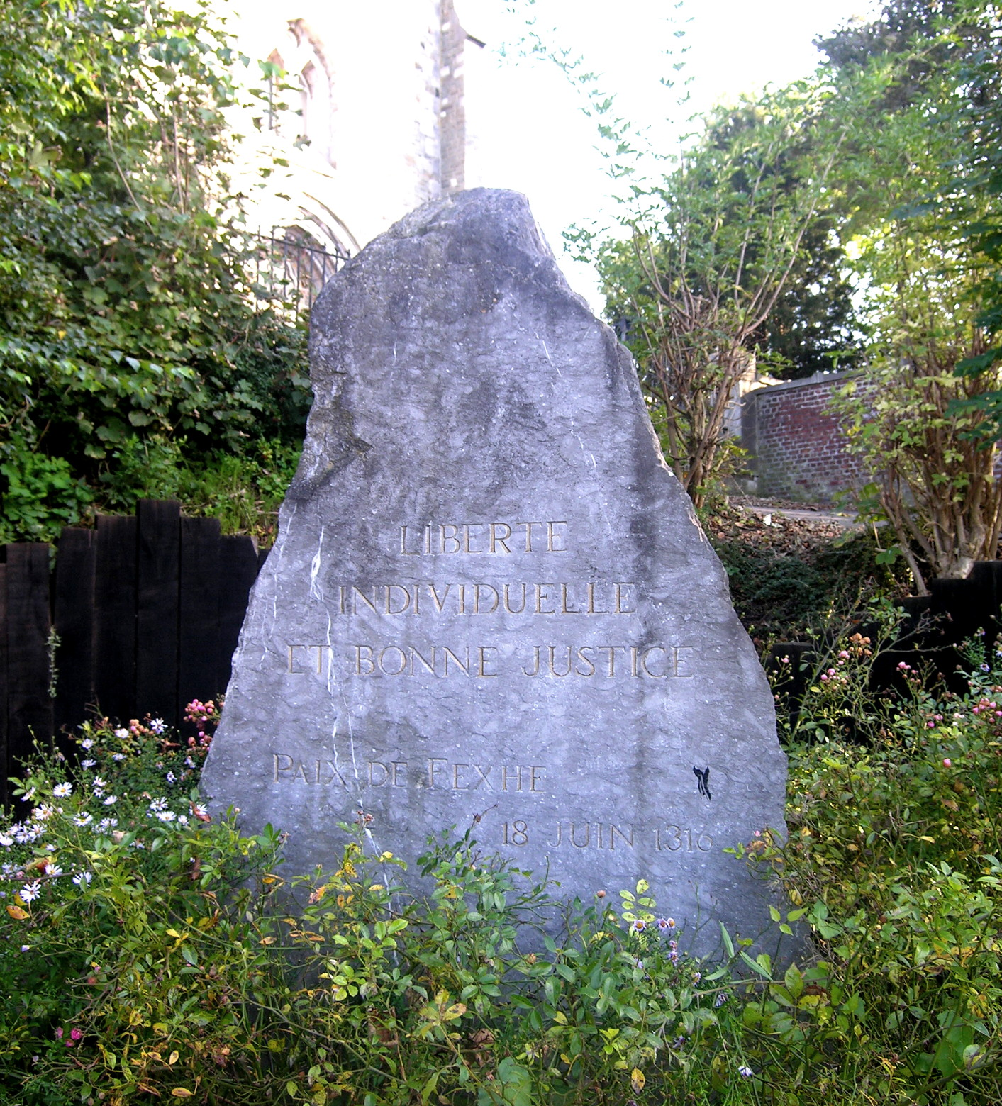 Fexhe-le-Haut-Clocher, Belgium: Memorial stone for the Peace Treaty of Fexhe (1316)